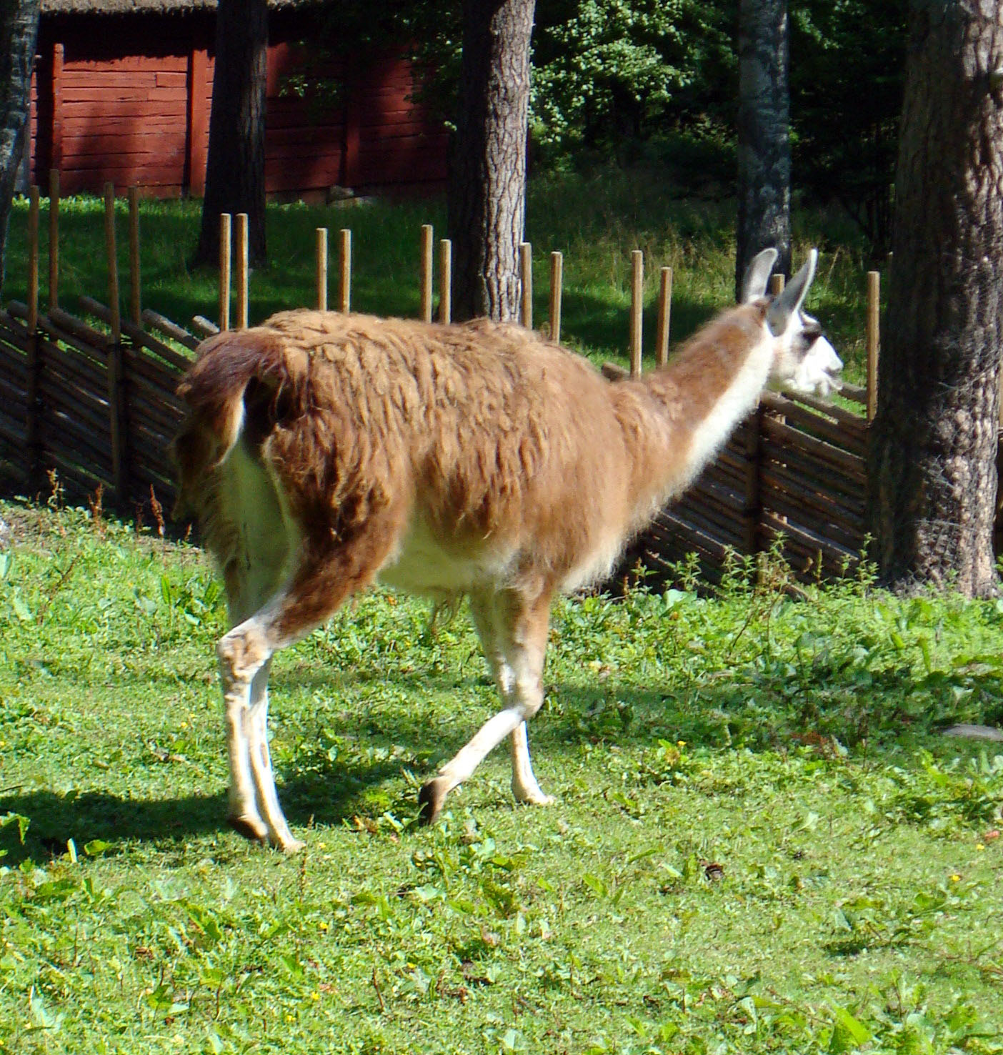 A llama in Jönköping, Sweden